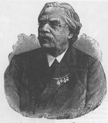 German organist and conductor Wilhelm Stade (1817-1902)